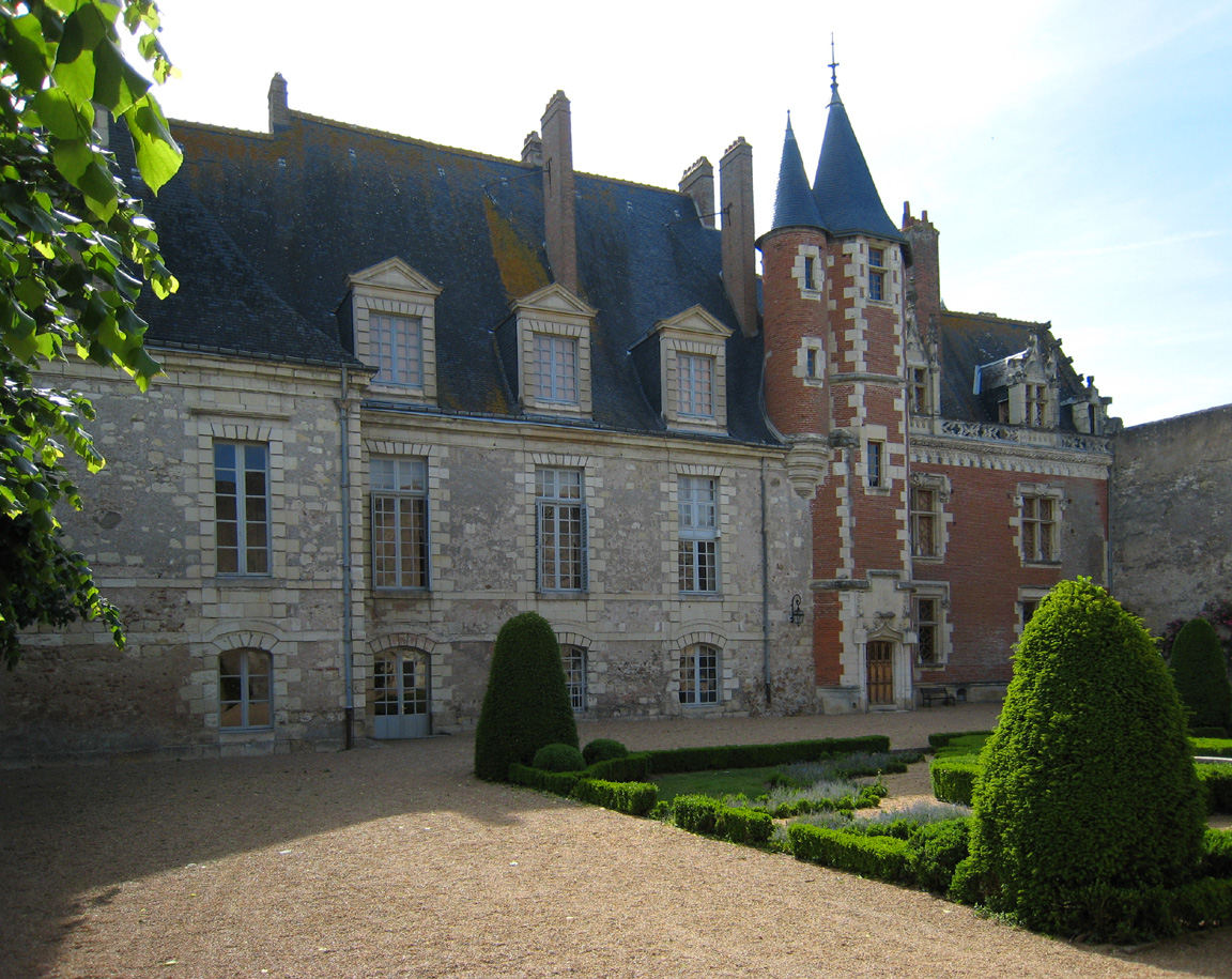 Castle Luynes in a vallay near the Loire river in the region Centre of France, courtyard side